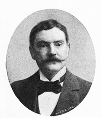 Thore) Blanche (1862-1932)